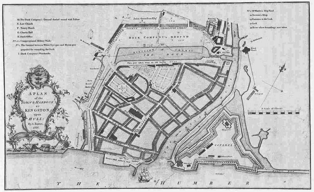 A plan of Hull showing the citadel, Queens dock, and the remains of the city walls, also "bush dike" 1786. Author is Antony Bower, (d.1821) surveyor and engineer, see: A Biographical Dictionary of Civil Engineers in Great Britain and Ireland: 1500-1830, A. W. Skempton, 2002, pp.66-7, A copy exists in the Hull museums collections , accession number KINCM:1980.26